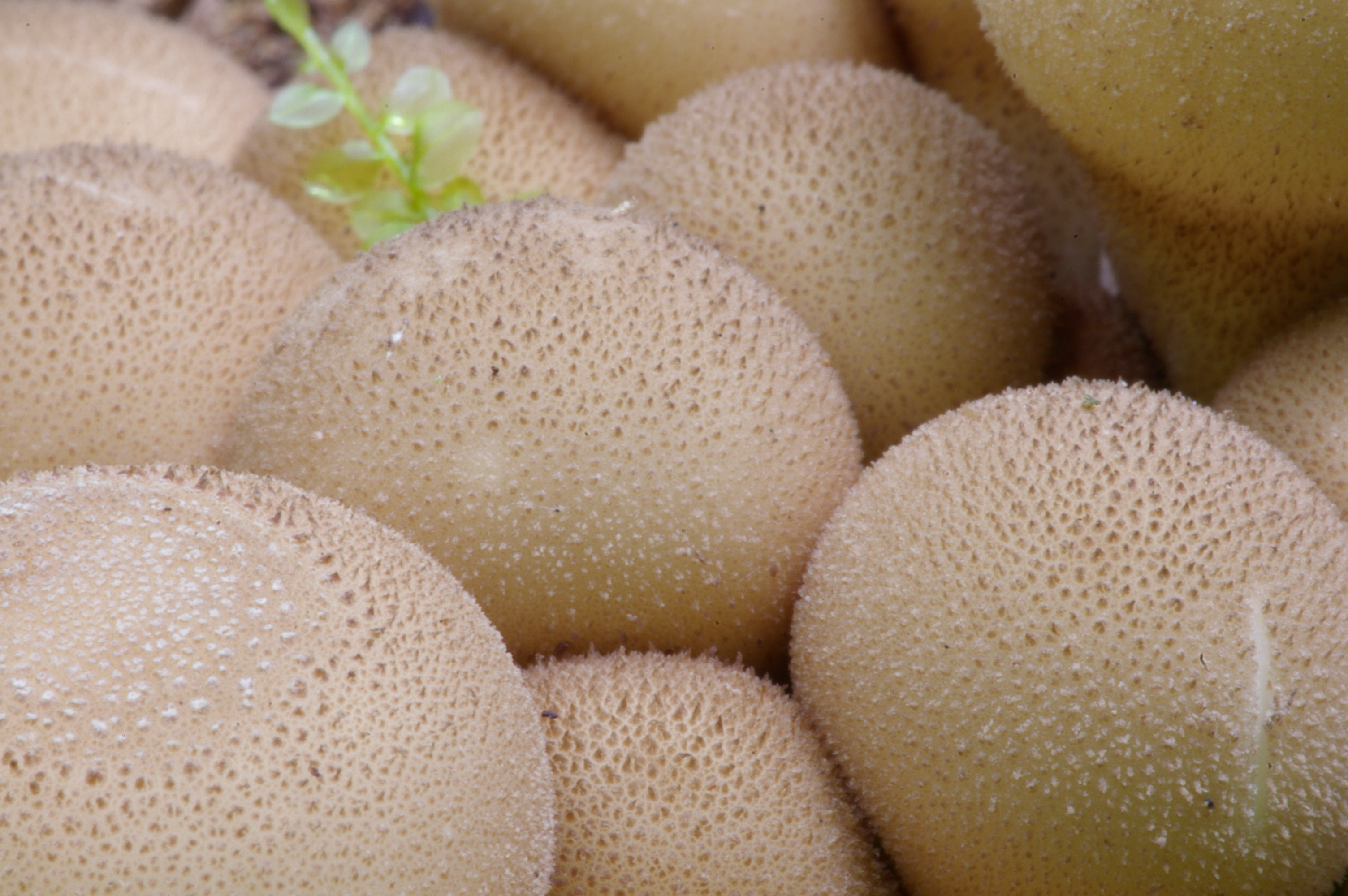 Lycoperdon pyriforme Schaeff.